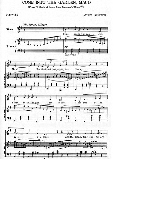 Opening of Arthur Somervell's "Come into the Garden, Maud", from his 1898 song-cycle Maud (to words by Alfred Tennyson